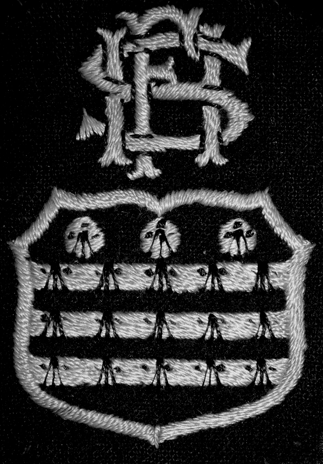 Close up photograph of the blazer badge of Humberstone Foundation School, Cleethorpes. Latin motto: Fax mentis honestae gloria (Glory is the Beacon of Honest Learning). For use in